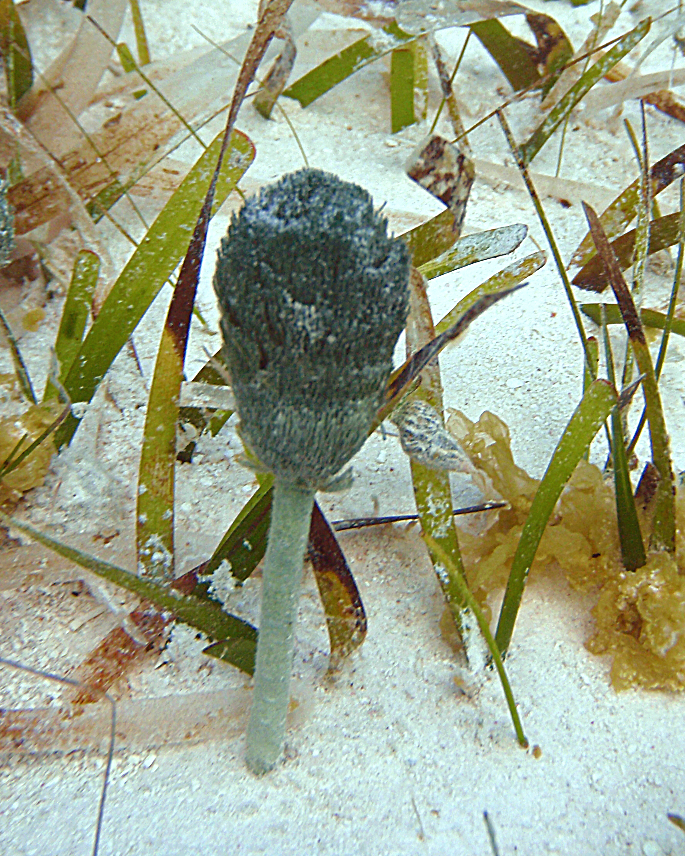 Penicillus dumetosus (Lamouroux, 1816) - shaving brush alga on shallow, aragonitic sandy seafloor. (photo taken by Mark Peter) Penicillus is a calcareous green alga - the "brush" contains densely packed bristles having tiny particles of aragonite (CaCO3 - calcium carbonate). After the alga dies and the soft parts decay away, the aragonitic portions become clay- & silt-sized seafloor sediments. A significant percentage of shallow seafloor and shoreline sediments in the Bahamas is from calcareous algae. Many carbonate petrologists suggest that ancient fine-grained limestones (micritic limestones; micrites) are diagenetically altered deposits of calcareous green algae similar to or analogous to Penicillus. The wide blades are Thalassia testudinum turtle grass. The slender stalks are Syringodium filiforme manatee grass. Classification: Chlorophyta, Caulerpales, Udoteaceae Locality: shallow seafloor just west of North Point Peninsula, southeastern Graham's Harbour, northeastern San Salvador Island, eastern Bahamas